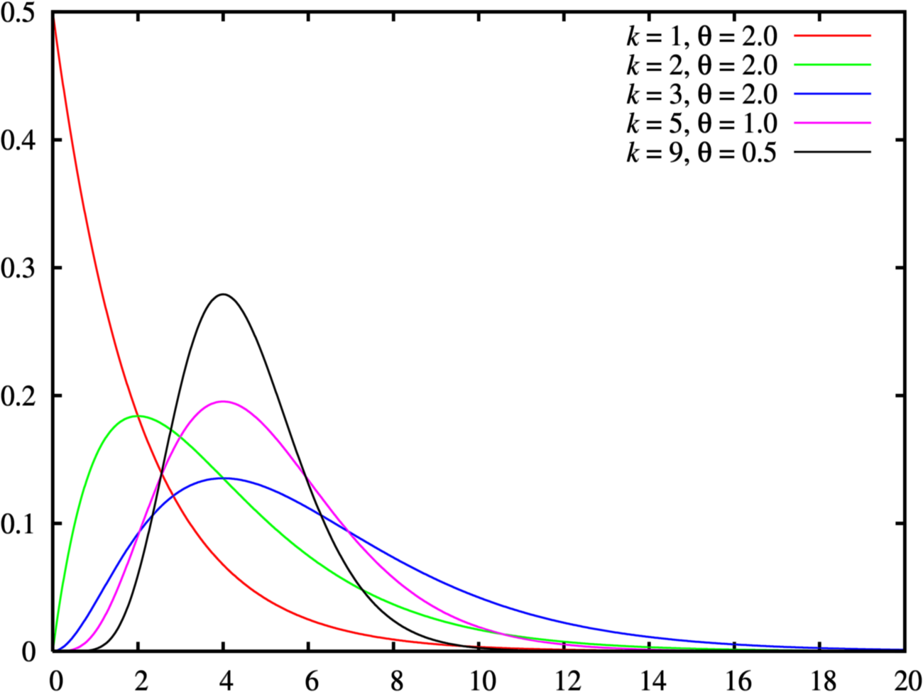 Probability density function for the Gamma distribution Related links: Gamma distribution Image:Gamma distribution cdf.png